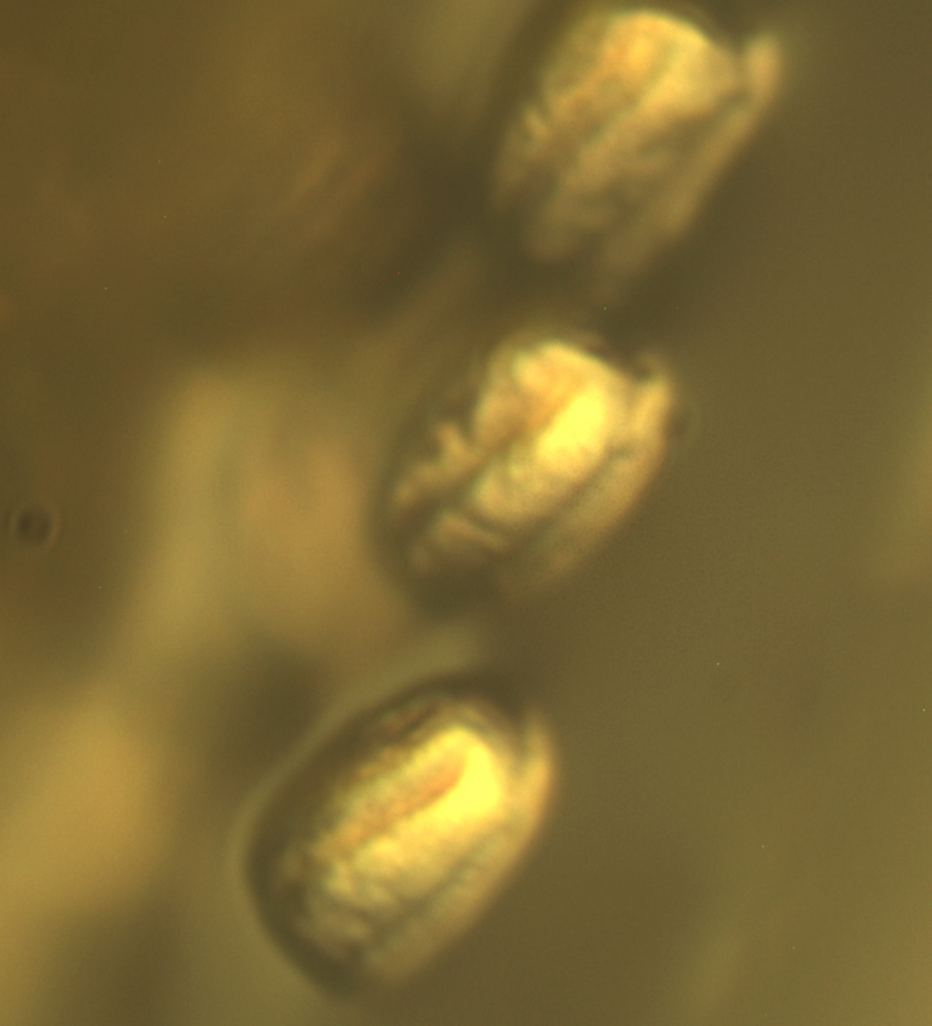 Primula veris Pollen 400x in Glycerin